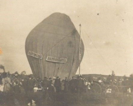 Image of a balloon ascension between 1890 and 1909.